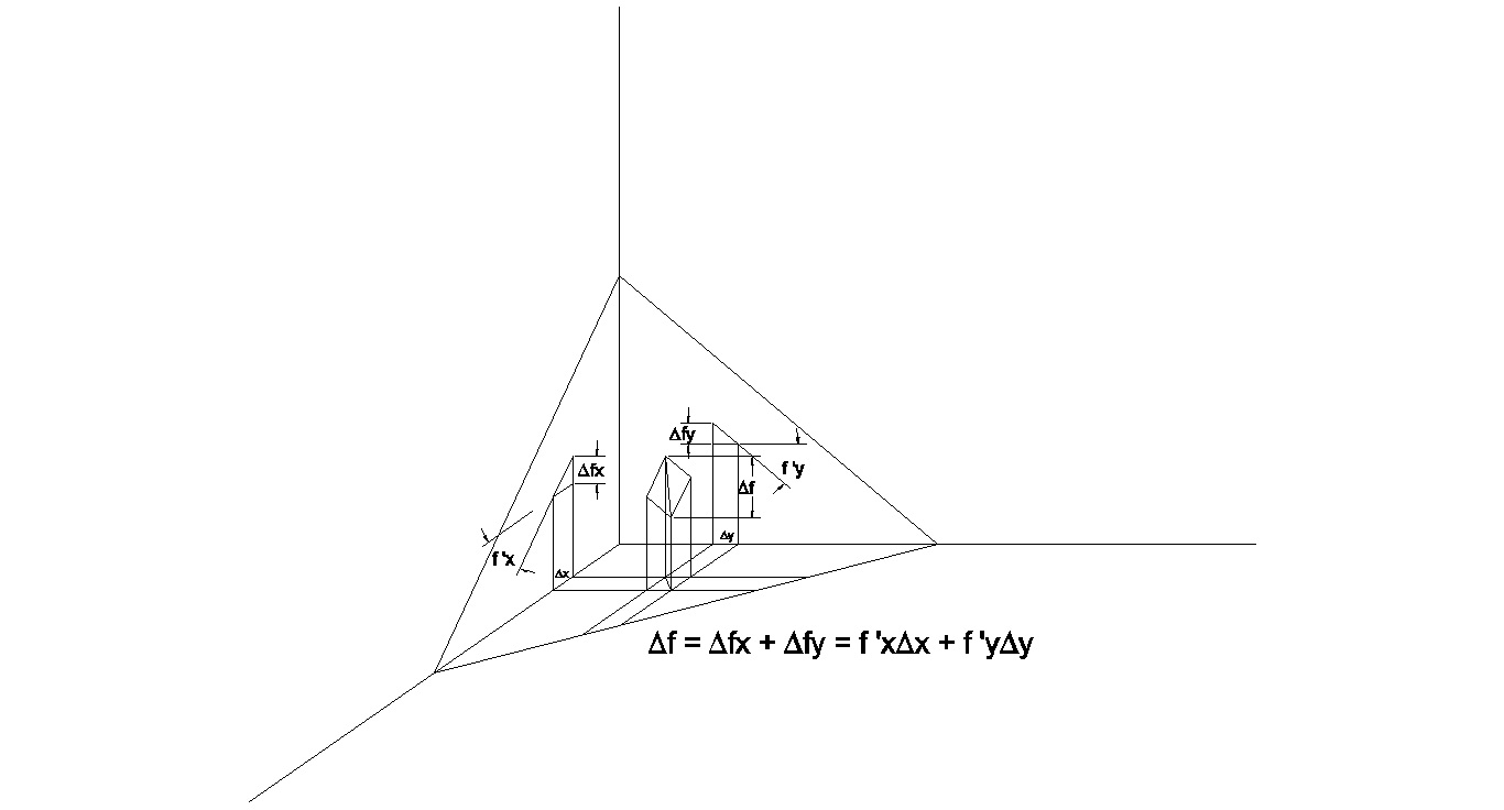 Total variations of a function of 2 variables, when both of them change.